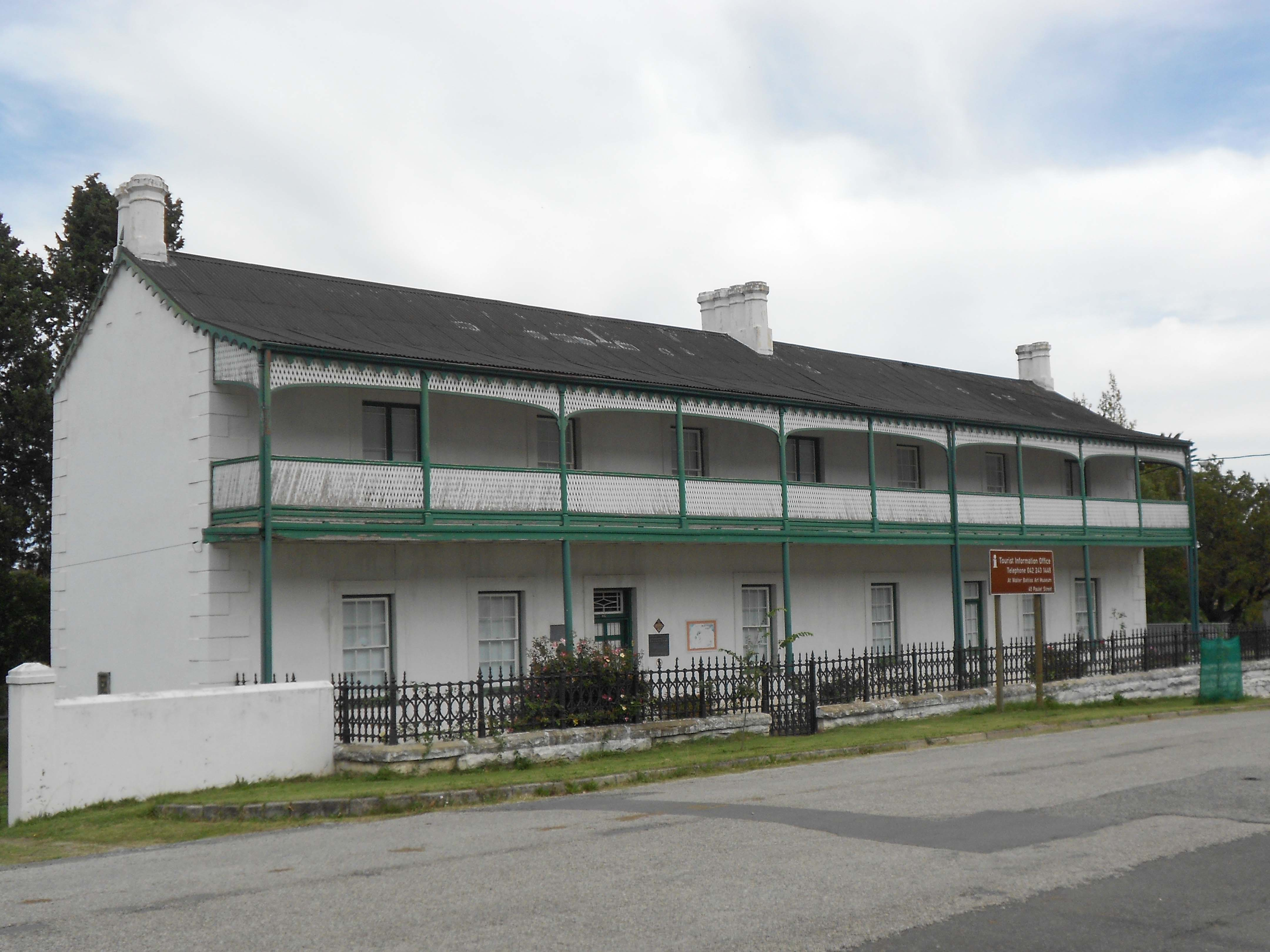 Walter Battiss Art Museum, 45 Paulet Street, Somerset East This media shows a South African Protected Site with SAHRA file reference 9/2/082/0007.